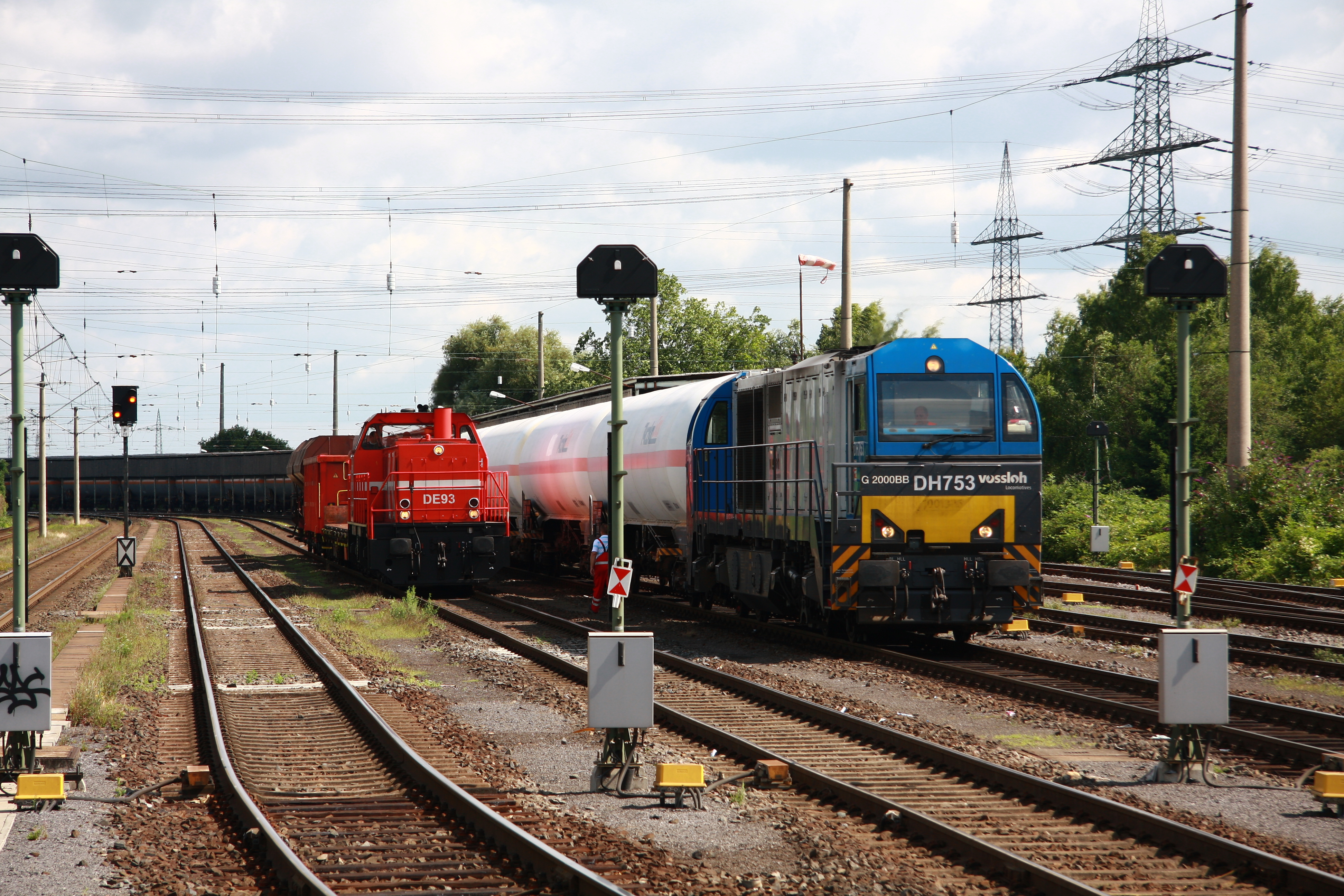 Vossloh G 2000 BB (right) of the Häfen und Güterverkehr Köln, a MaK DE 1002 (left), picture taken in Brühl (Rhineland)